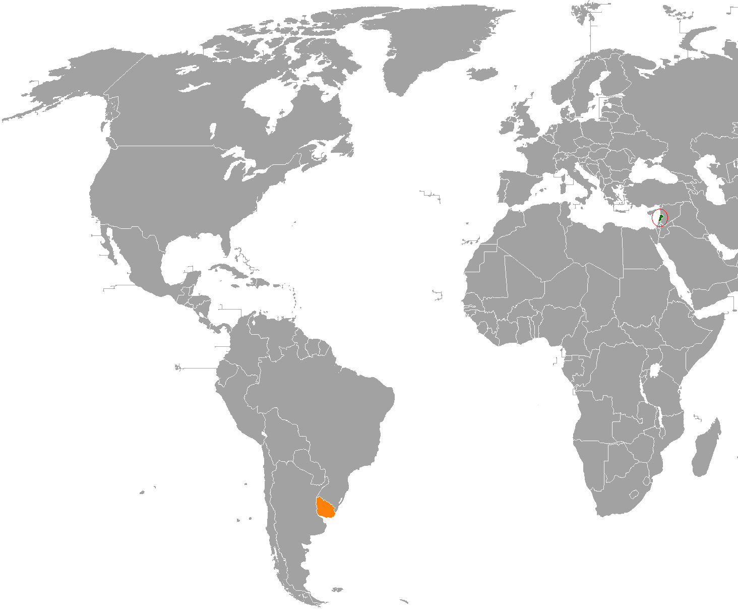 Map showing Lebanon and Uruguay